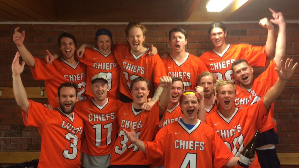 Norwegian Lacrosse team BI Chiefs' roster for Bergen Challenge 2014